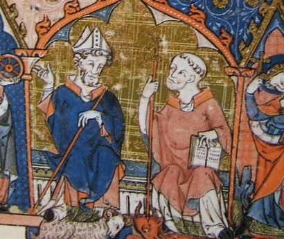 Late 13th- early 14th century miniature of a bishop above a ram, and an abbot above a bull; from the part of the Ramsey Psalter in the Pierpont Morgan Library, New York, MS M. 302, fol. 4v